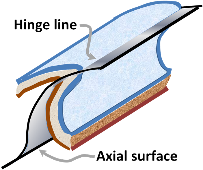 Cylindrical fold of geological strata showing axial surface and hinge line